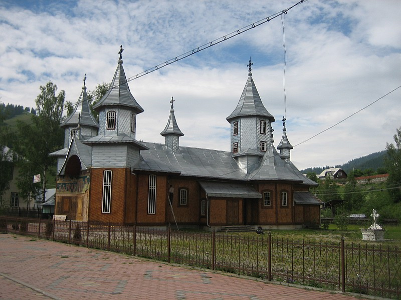 picture of the orthodox church in cirlibaba